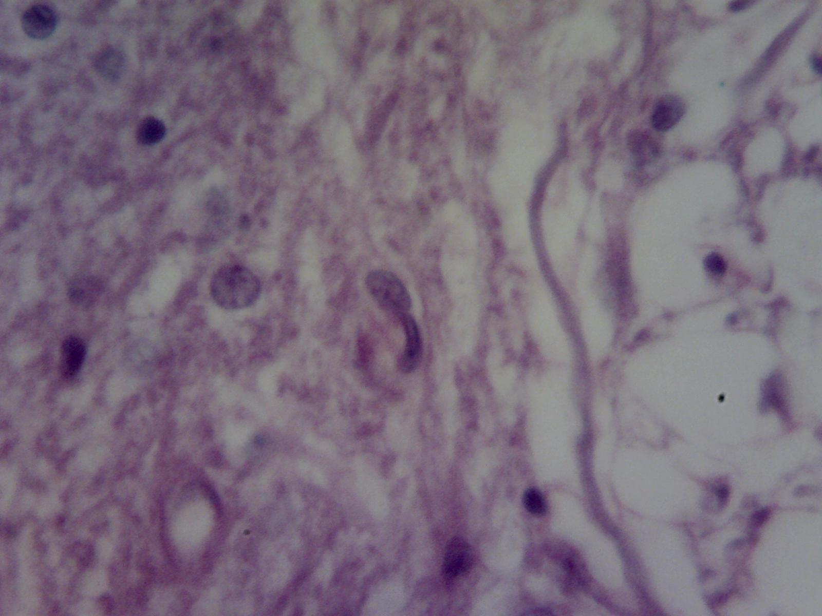 human nervous tissue